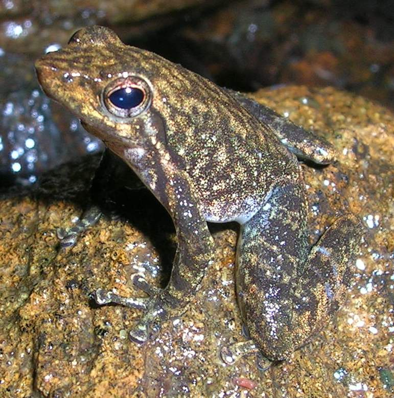 Most probably Micrixalus saxicola (Black Torrent Frog) Jerdon, 1853 Id by Dr K. V. Gururaja from photograph only. No specimens taken. Photograph by L. Shyamal, Wynaad, 2006